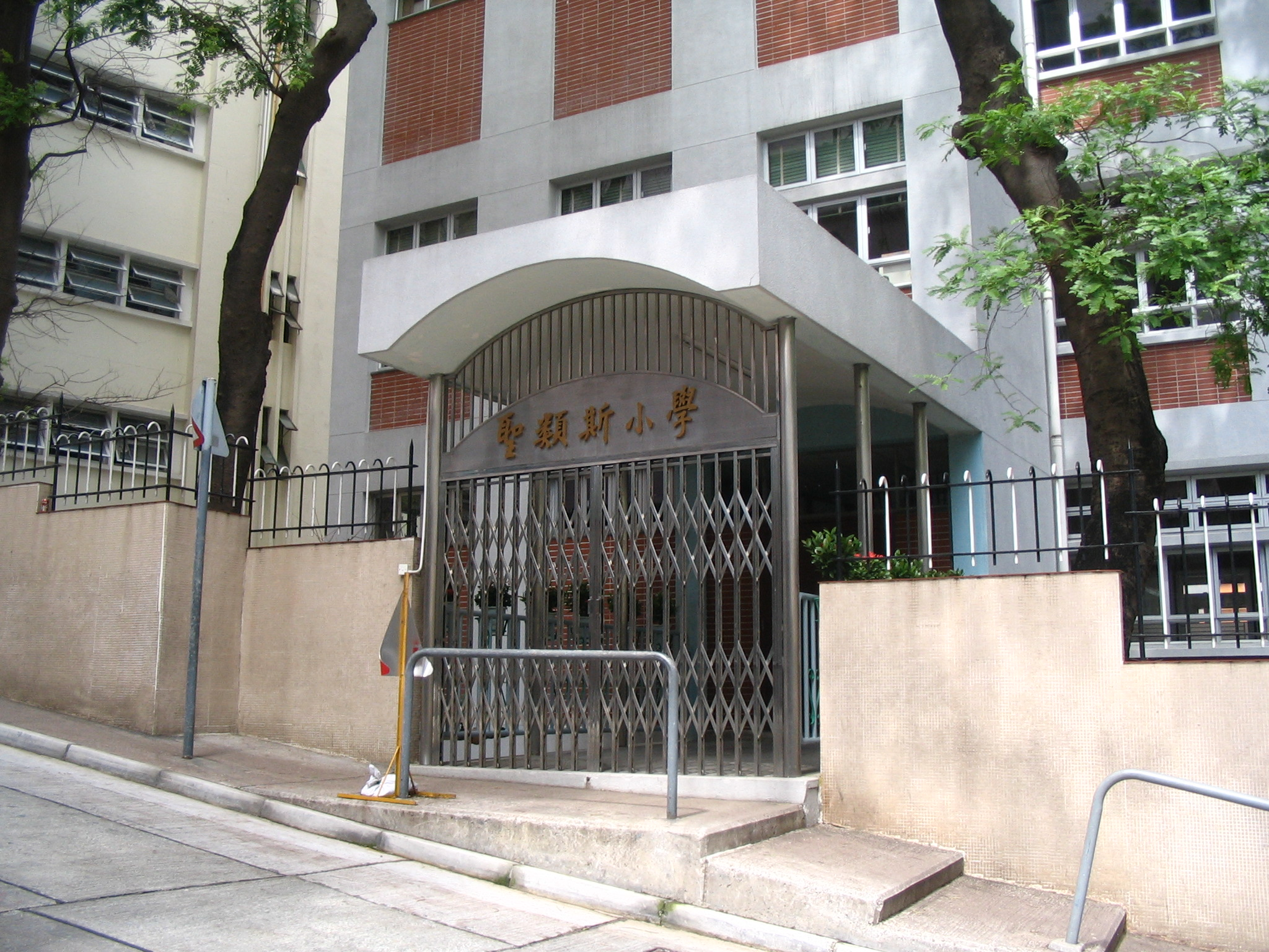 Photo of St. Louis School